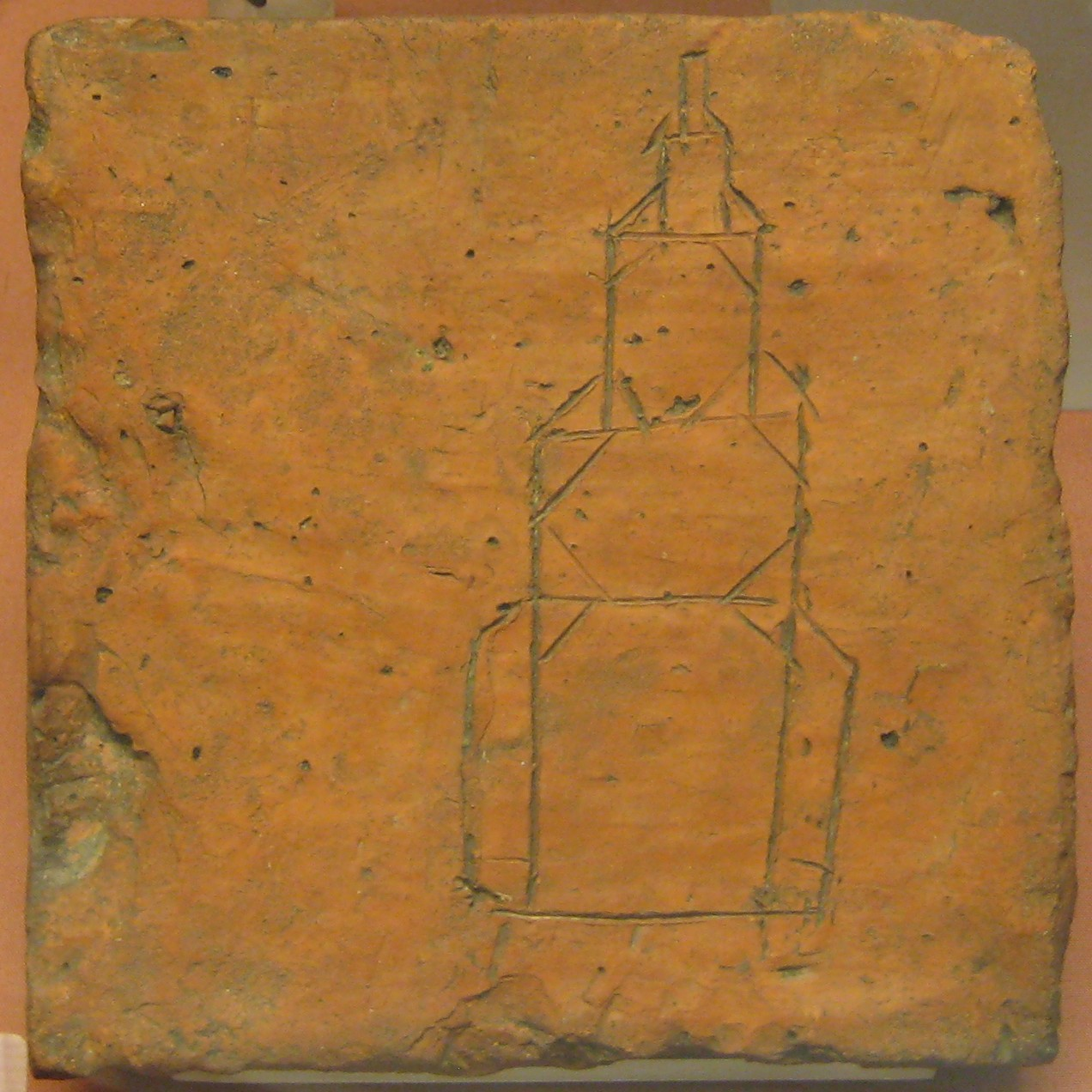 Ceramic tile (from London?). Sketch scratched onto the tile before firing appears to show a Roman lighthouse or "pharos" (perhaps one of the pair at Dover).